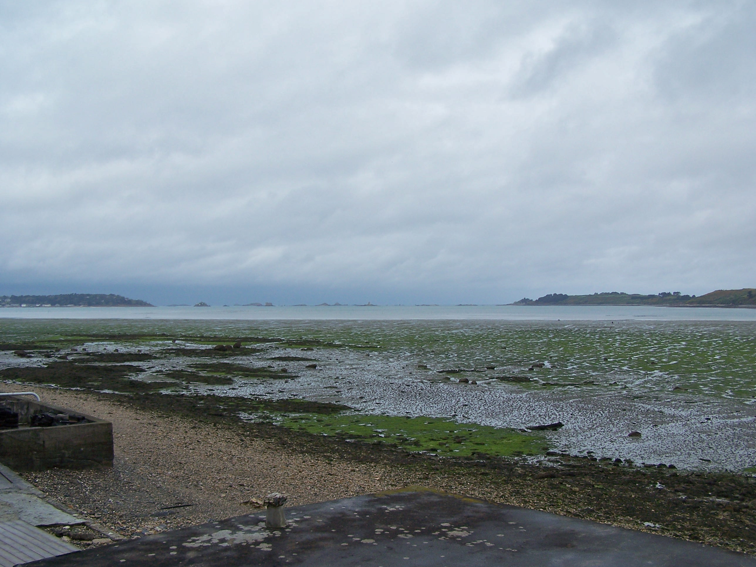 Estuaire de la rivière de Morlaix